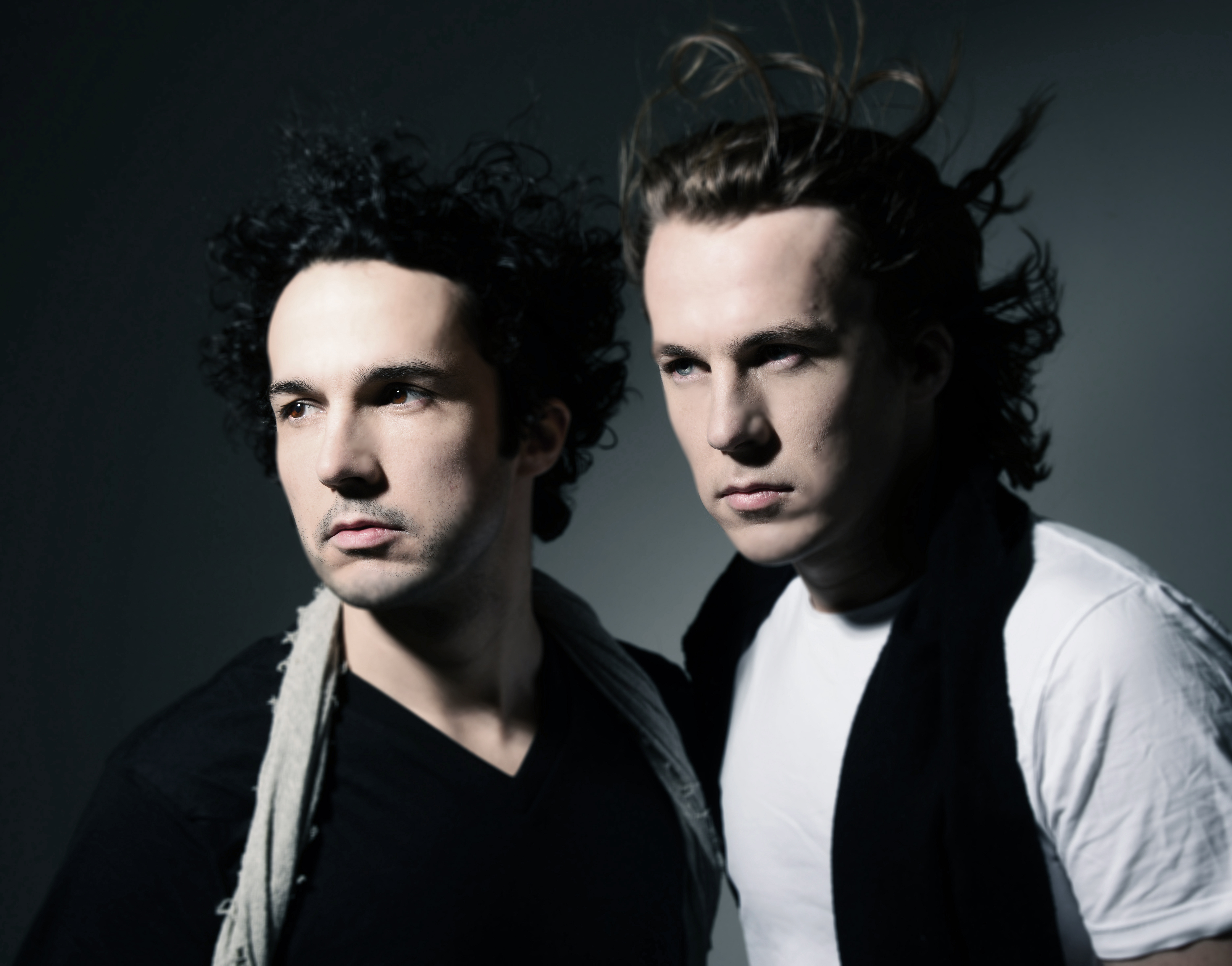 Ylvis. Bård and Vegard Ylvisåker.